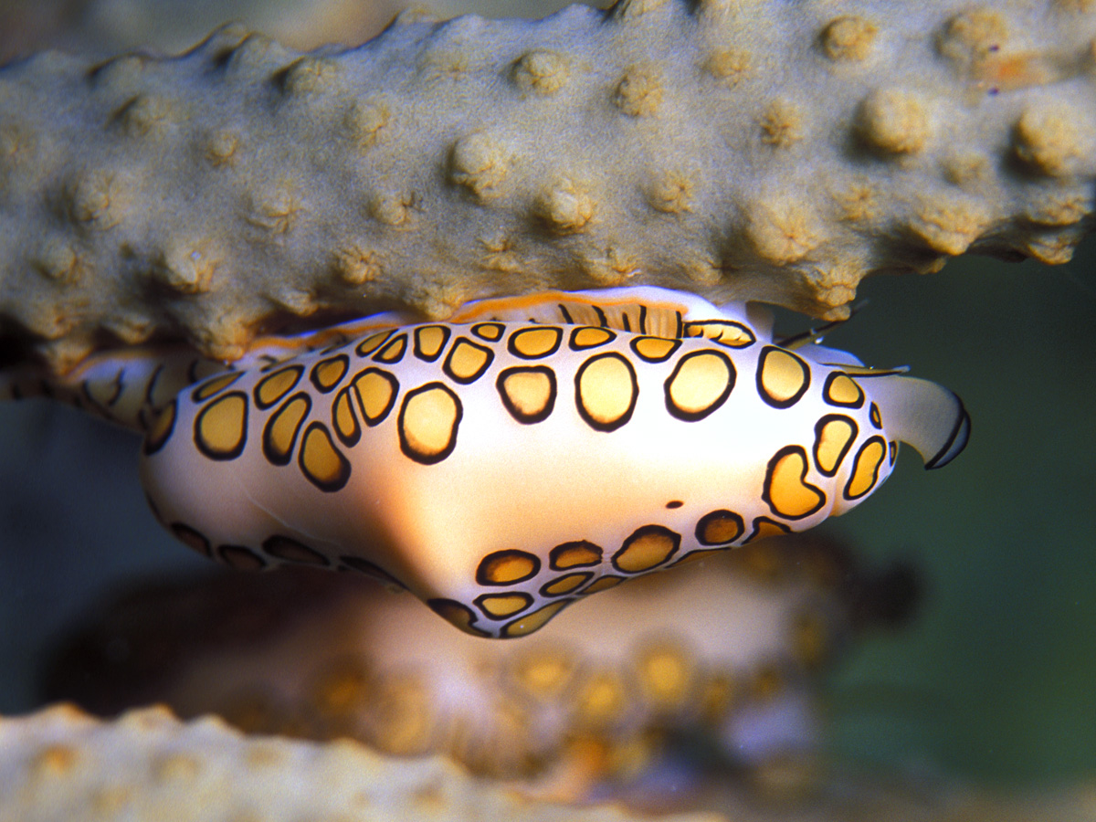 These snails are so pretty. All of the color, however, is in their mantle. So when you find a dead one, they just look like ugly white shells. Here's a nice profile taken of one using 105mm macro. Curacao, Netherland Antilles.Flamingo Tongue Snail in Profile